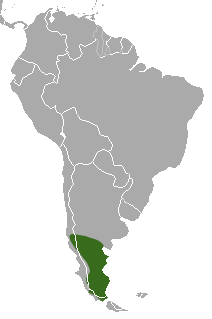 Humboldt's Hog-nosed Skunk (Conepatus humboldtii) range